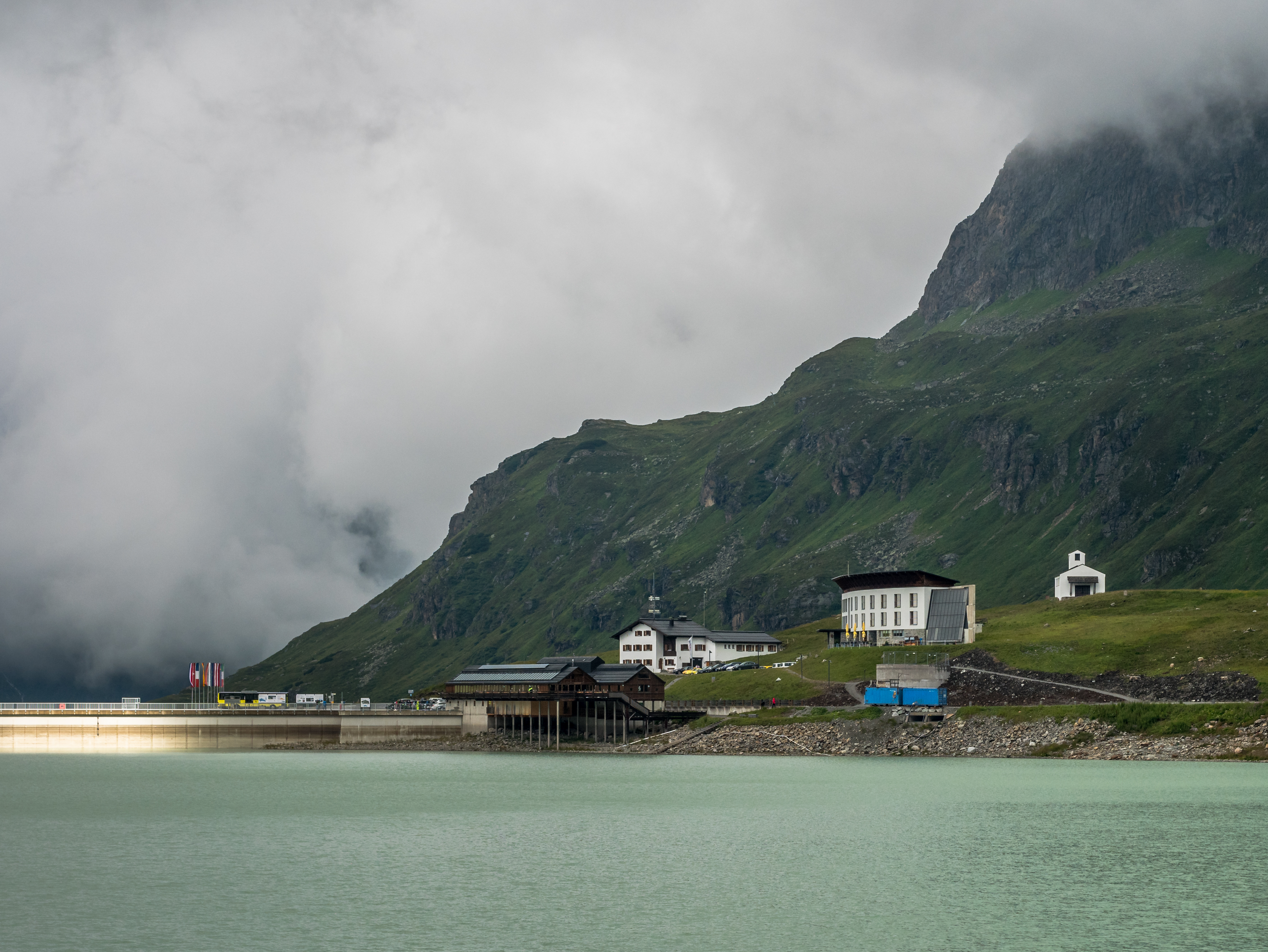 Bielerhöhe mountain pass and Silvretta Reservoir. Vorarlberg, Austria